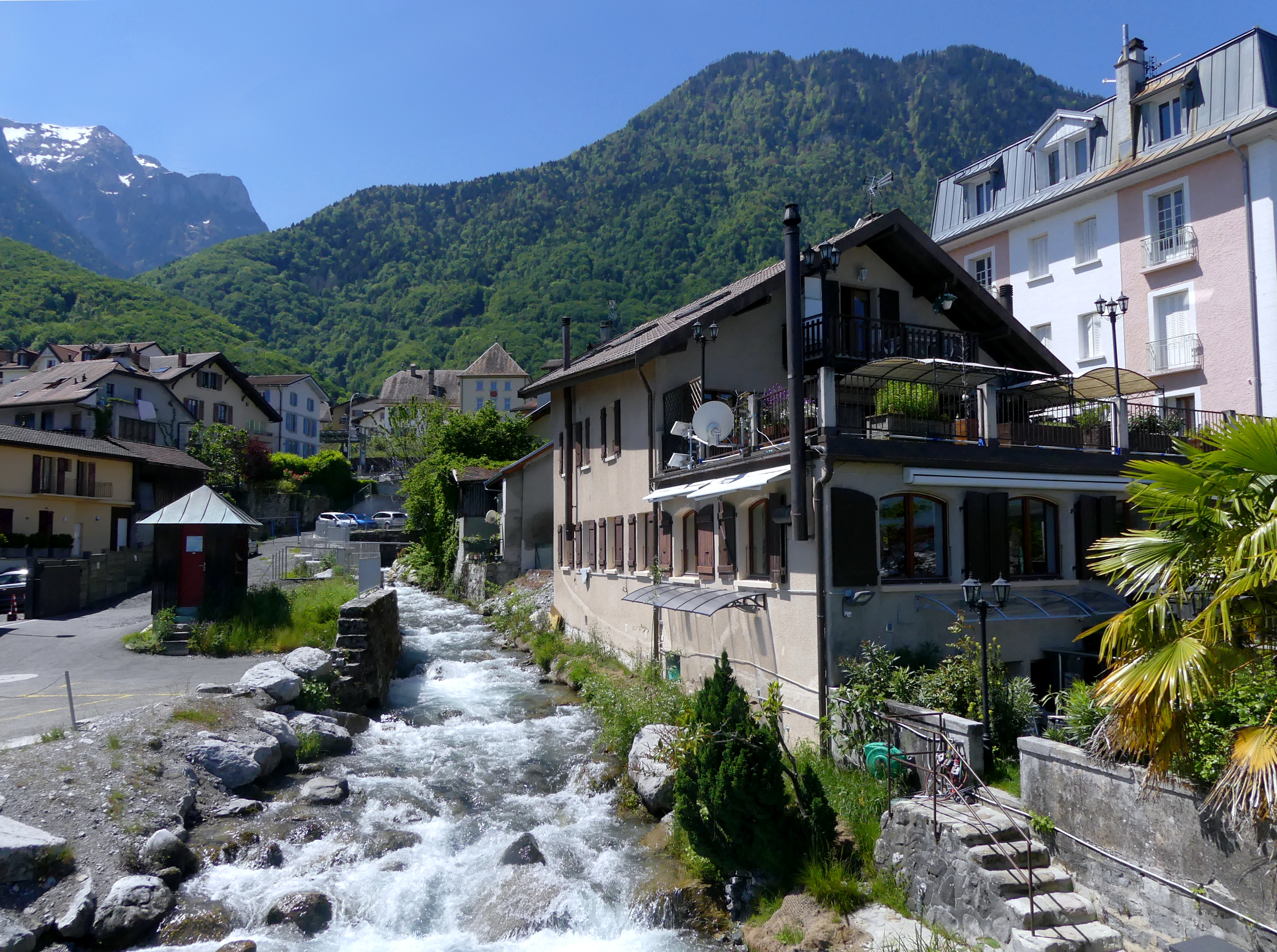 Sight of the Morge river, Switzerland-France natural border at Saint-Gingolph, from the footbridge over its mouth into Geneva lake.